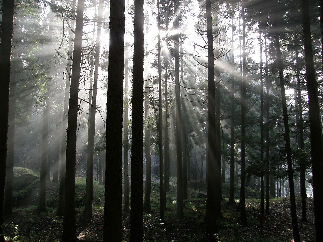 Japanese cypress woods